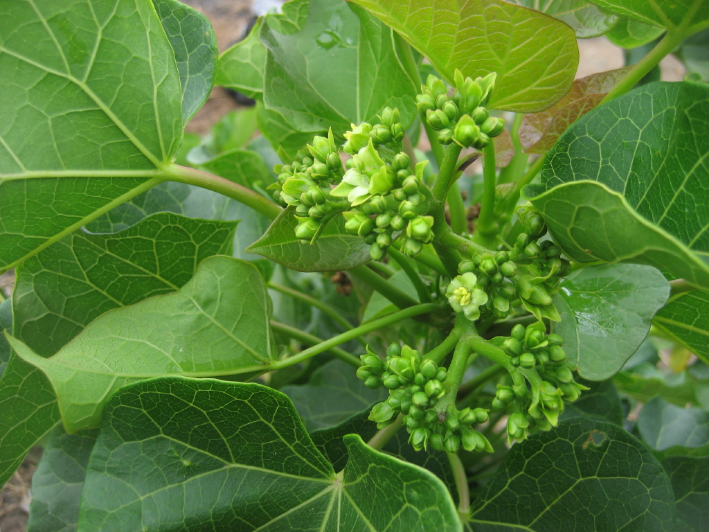 Inflorescence of naturalized tree of Jatropha curcas, with female and male flowers. Mount Whenje, Macossa District, Manica Province, Mozambique. Seeds are used to process biodiesel.